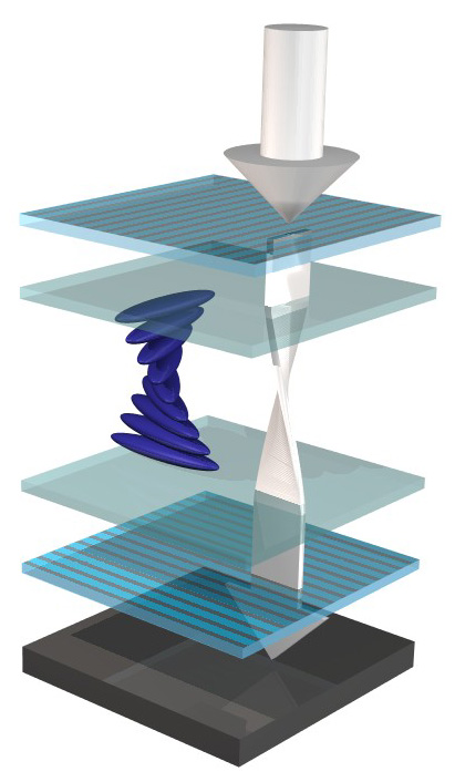 Schematic of a liquid crystal display element. With the field turned off, the mesogens naturally form a twisted state between the crossed polarizers. Because of this, the polarization of incident light is rotated, and thus can pass through the assembly.